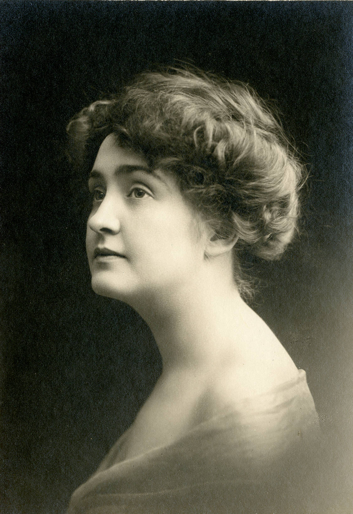 Stage actress Bessie Bruce Subjects: actresses